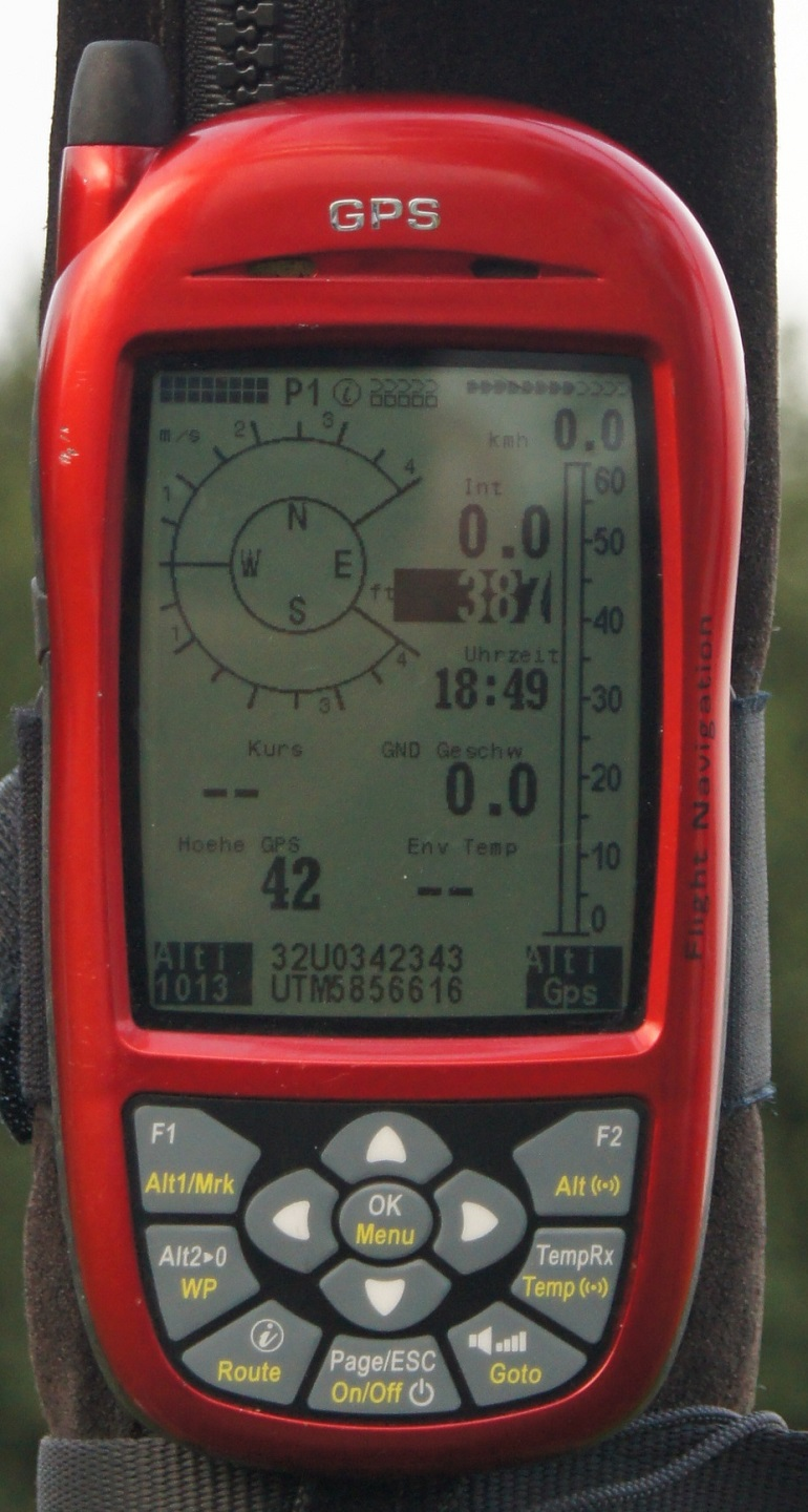 modern balloon instrument